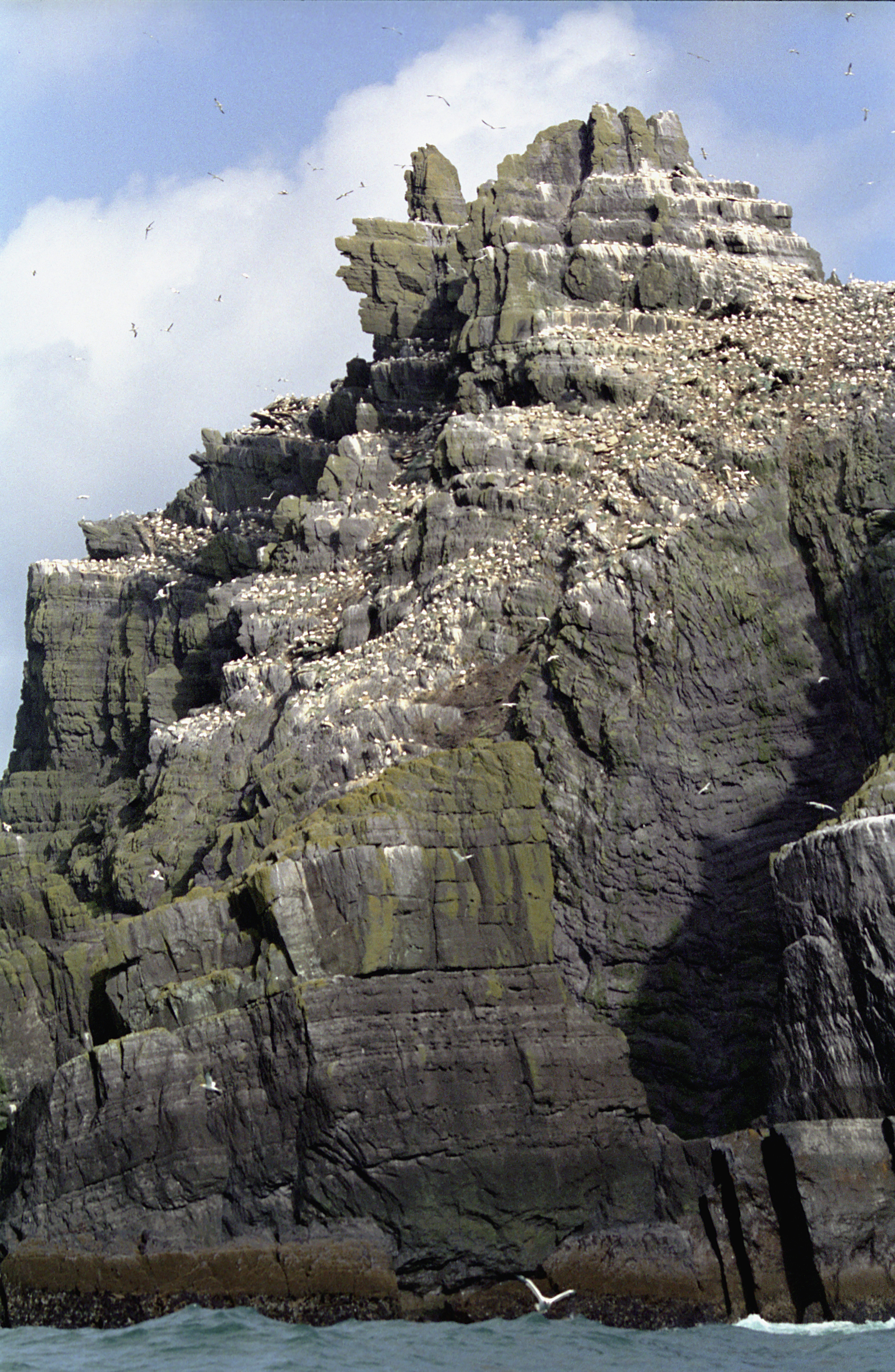 The Little Skellig